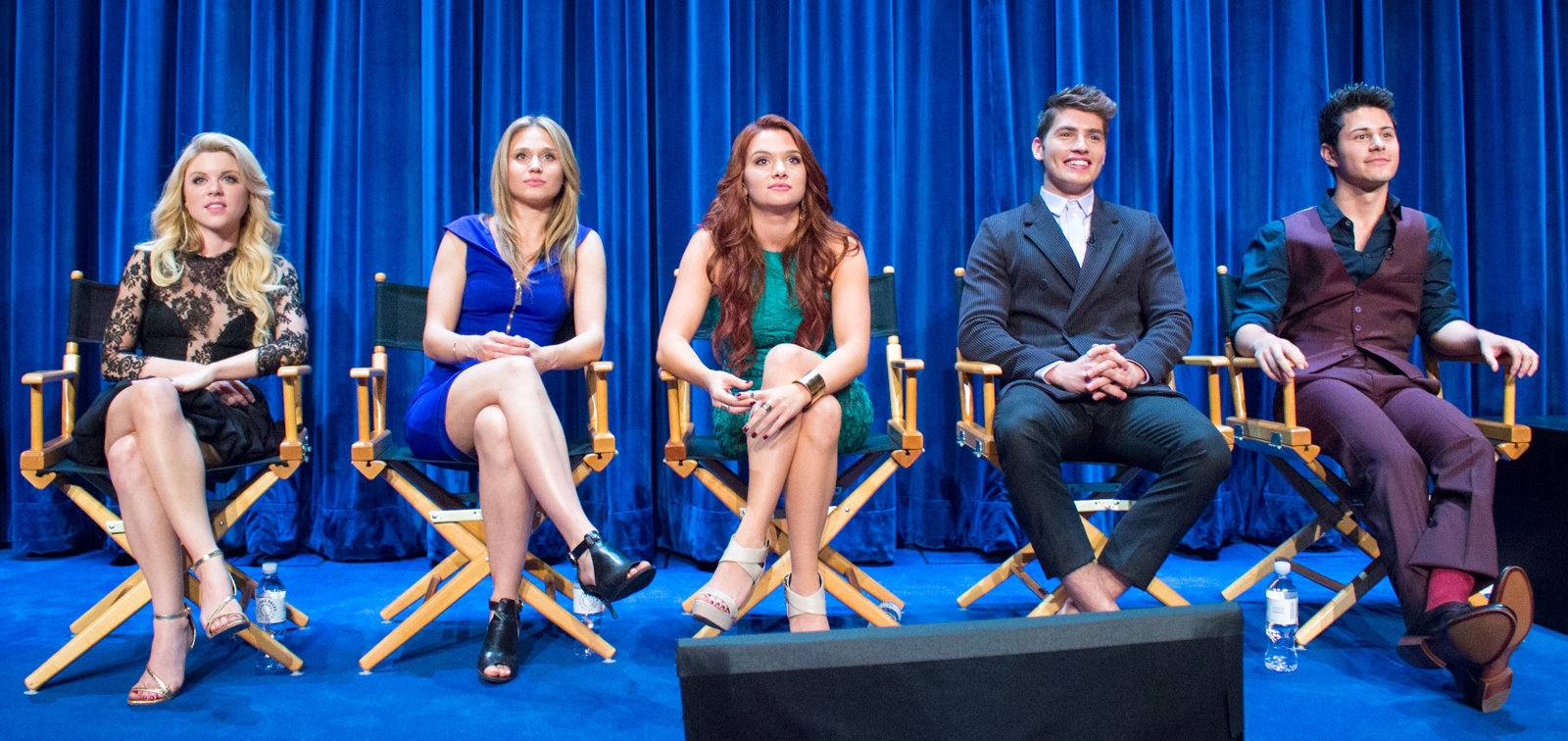 L to R: Bailey De Young, Rita Volk, Katie Stevens, Gregg Sulkin and Michael J. Willett at the 2014 PaleyFest Fall TV Premiere presentation for MTV's "Faking It"